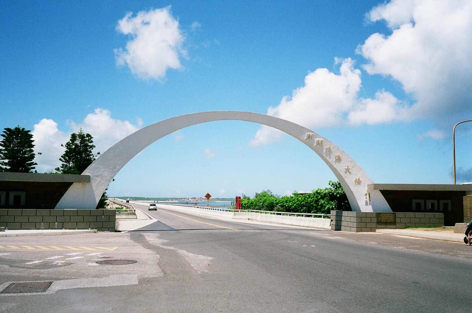 The Penghu Great Bridge is 2,494 long. It strides above the Houmen Waterway between Baisha and Xiyu Islands. It is said the ocean current underneath the bridge can be as fast as 3 meters per second—the second most dangerous in Penghu.